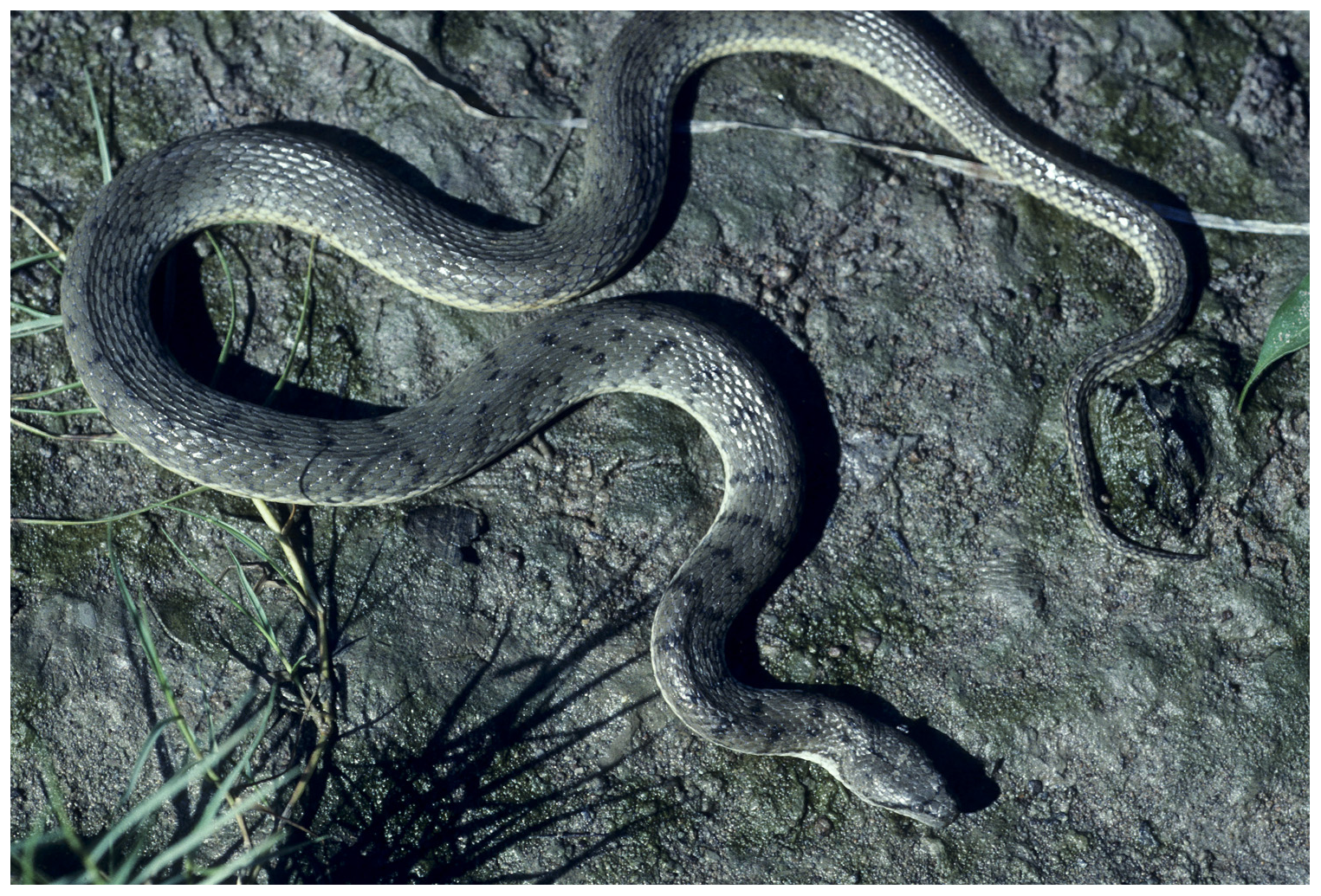 Cerberus rynchops